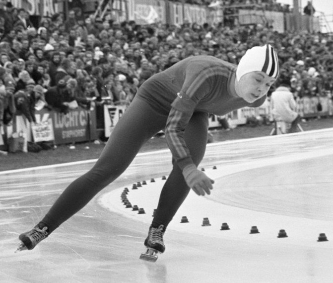 Ellie van den Brom, World Championships in Heerenveen